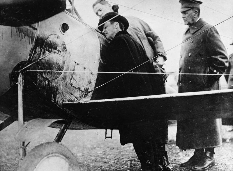 American First World War Official Exchange Collection Secretary Baker and Major General Black inspecting Nieuport aircraft at Issoudon Aviation Camp, 8 April 1918